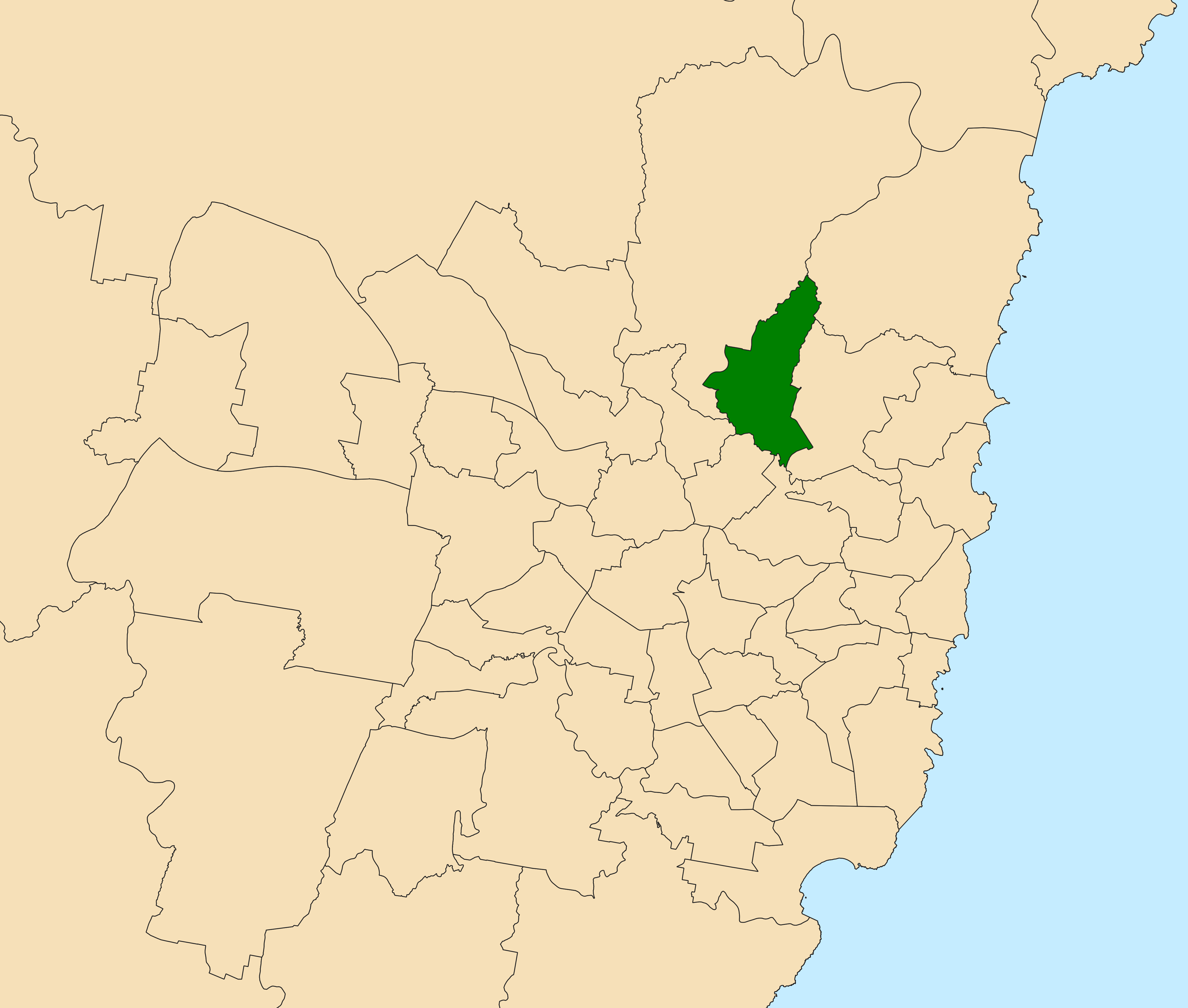 Location of the state electoral district of Ku-ring-gai (dark green) in the metropolitan Sydney area as of the 2019 New South Wales state election. Incorporates or developed using Administrative Boundaries ©PSMA Australia Limited licensed by the Commonwealth of Australia under Creative Commons Attribution 4.0 International licence (CC BY 4.0).